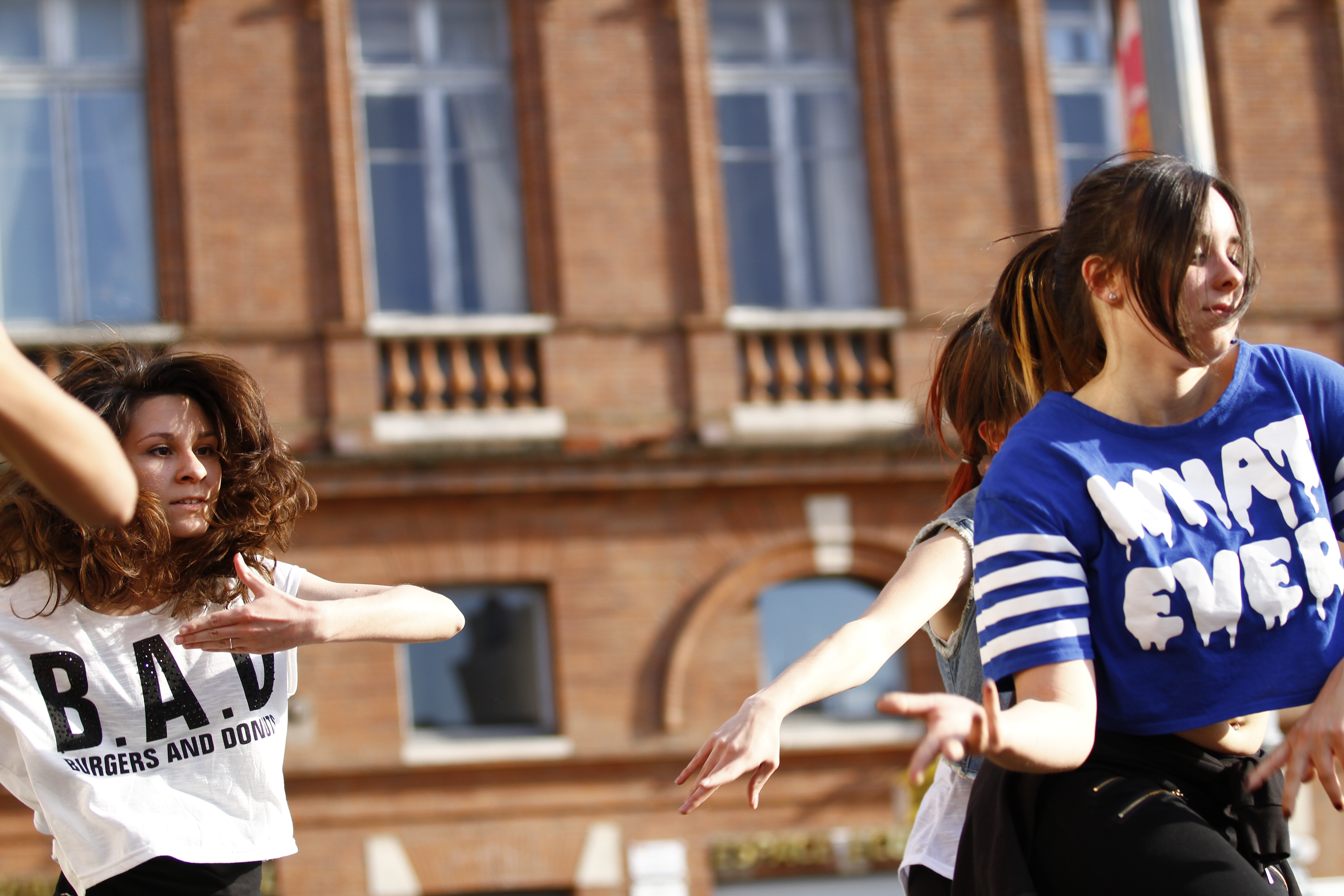 Dancer performing a movement Forom des langues Toulouse 2014 - Group Bounce Dance Crew Danseuse executant un mouvement KPOP Korean Pop Pop coréen.